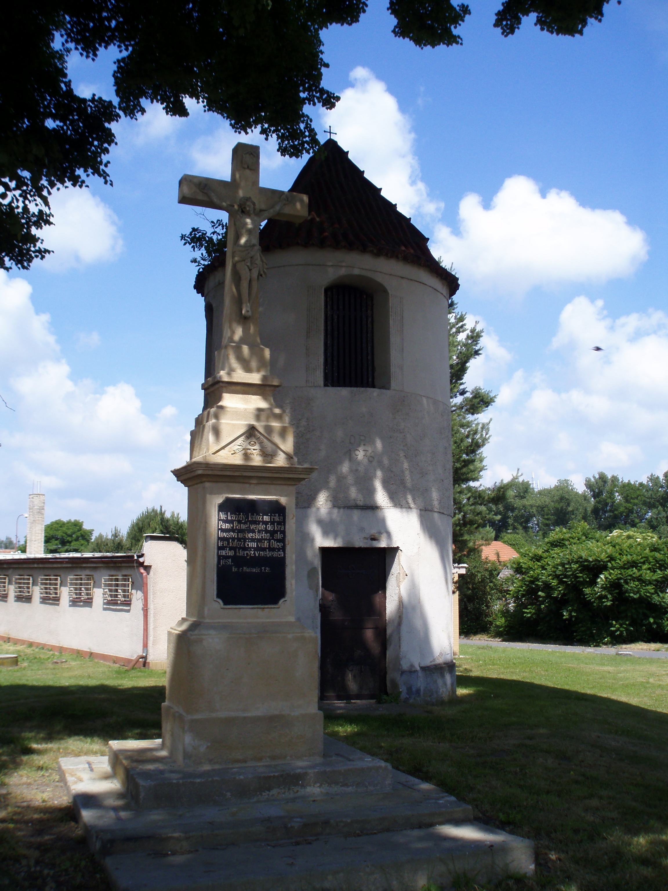 Libišany (District of Pardubice)